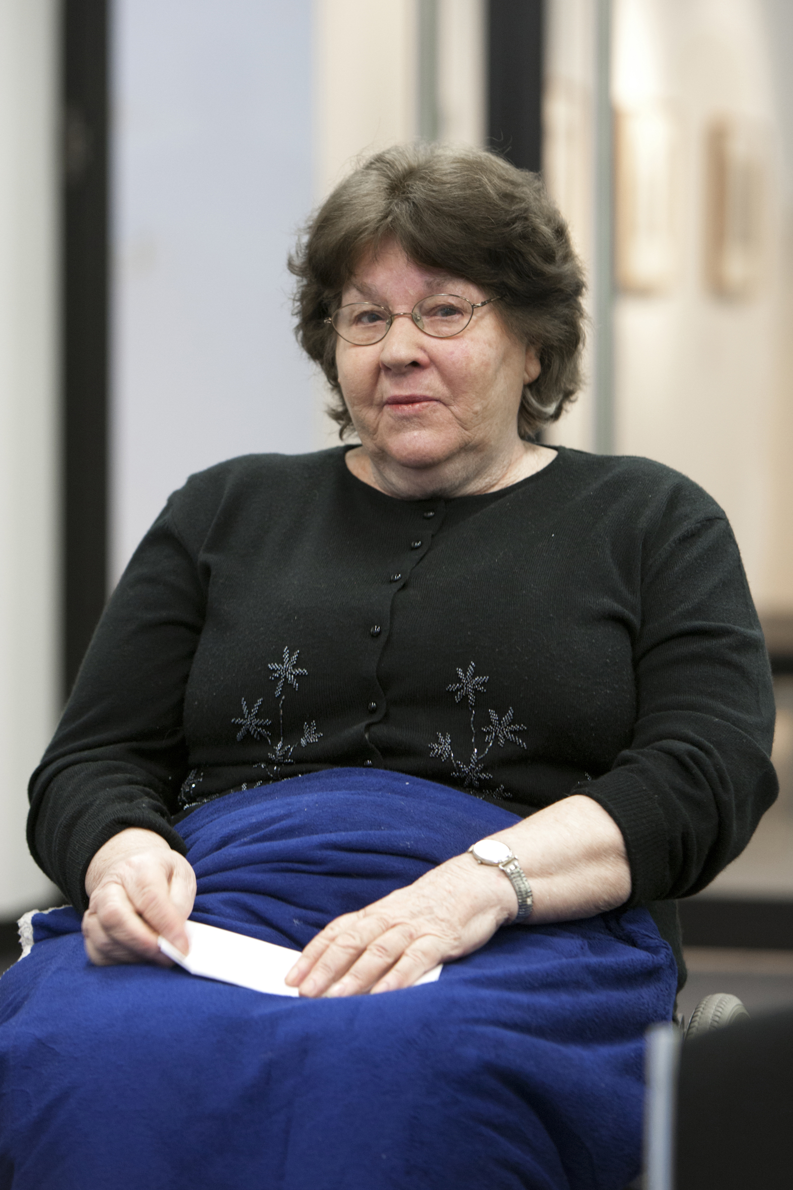 Daphne Hilton on the occasion of the donation of historical items to the APC by Daphne Hilton